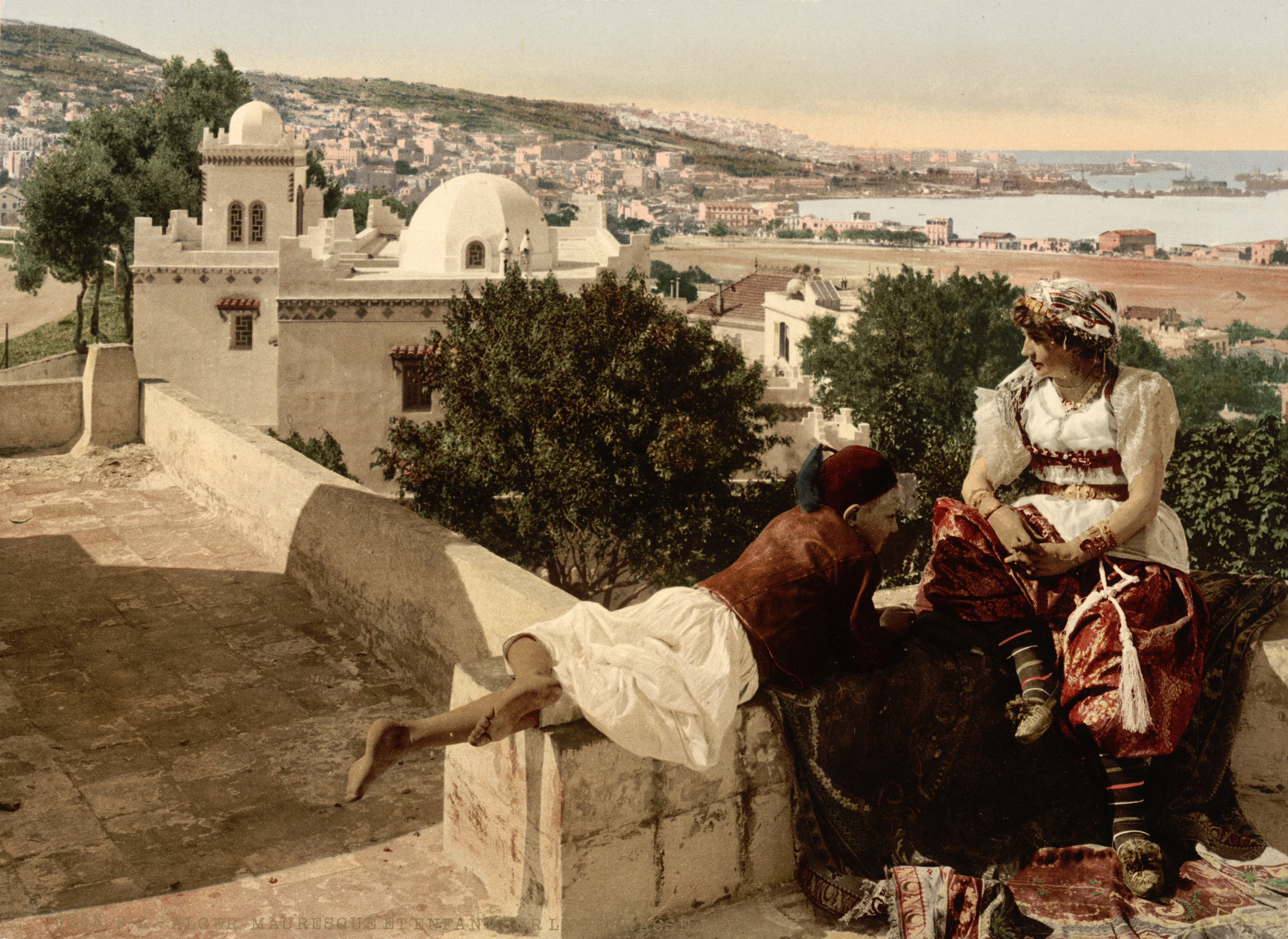 Photochrom print by Photoglob Zürich, between 1890 and 1900. From the Photochrom Prints Collection at the Library of Congress More photochroms from Algeria | More photochrom prints [PD] This picture is in the public domain.